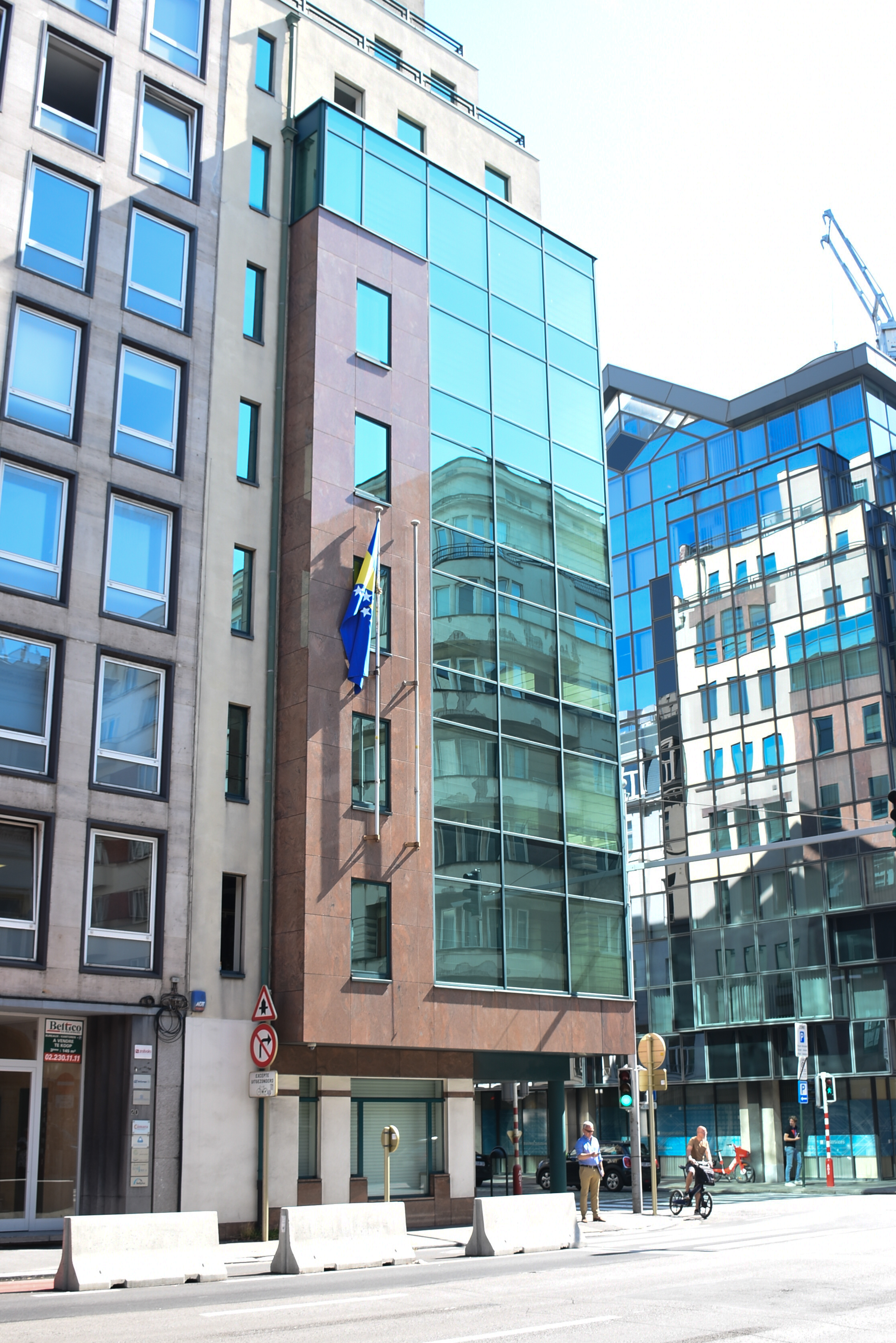 Embassy of Bosnia and Hercegovina in Brussels